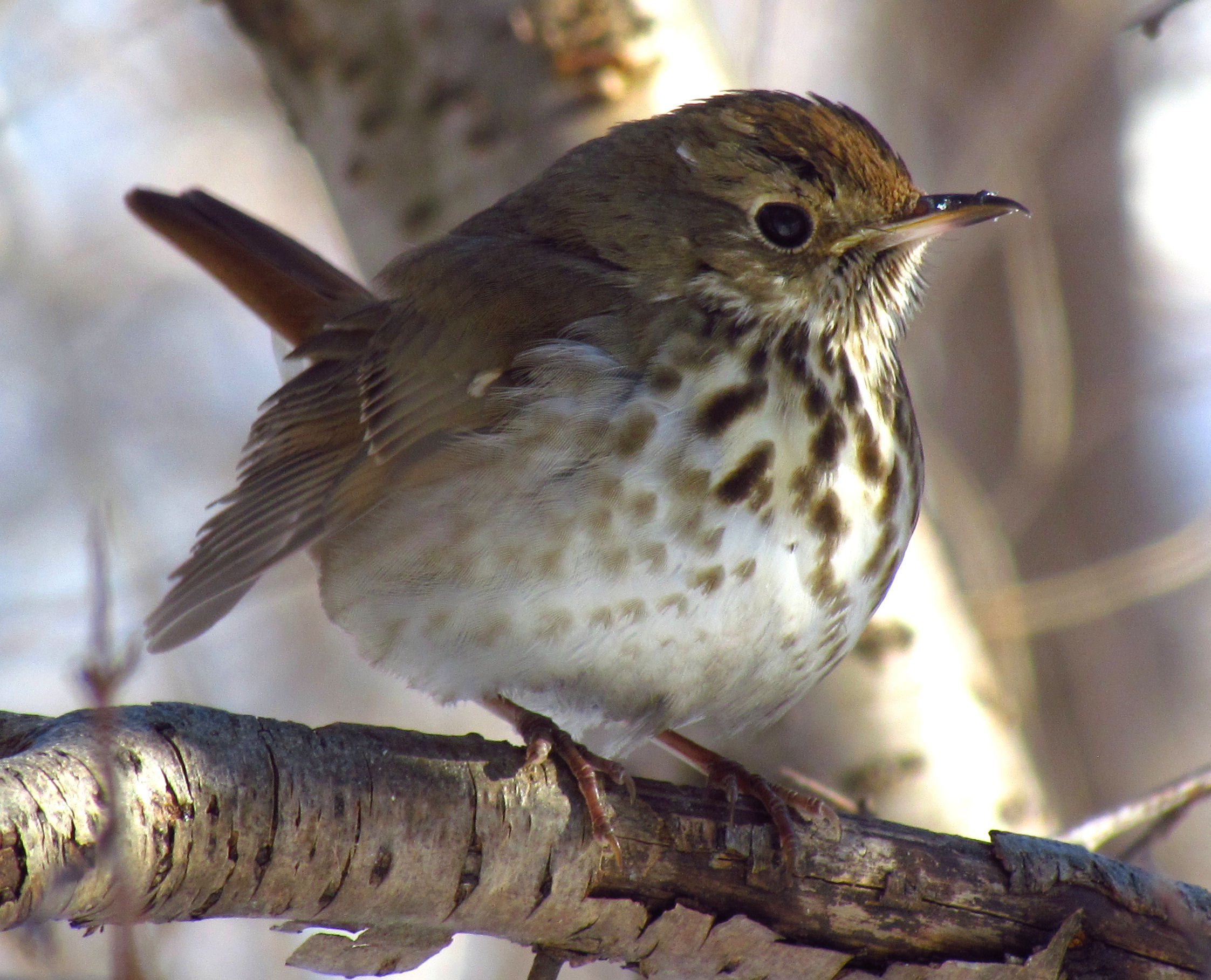 Hermit Thrush (Catharus guttatus), in winter, Ottawa, Ontario, Canada